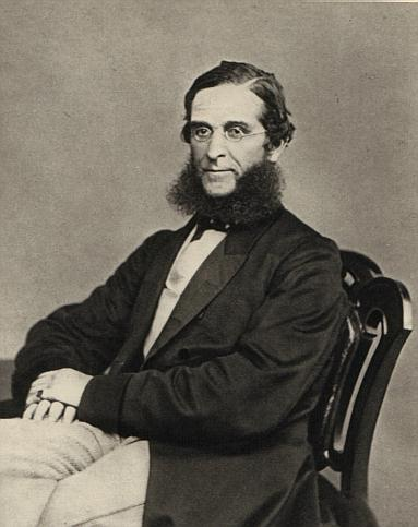 Photograph of Sir John Evans (1823-1908) public domain